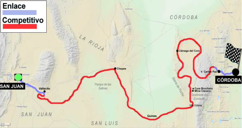 Dakar Rally 2018. Map Stage 13.